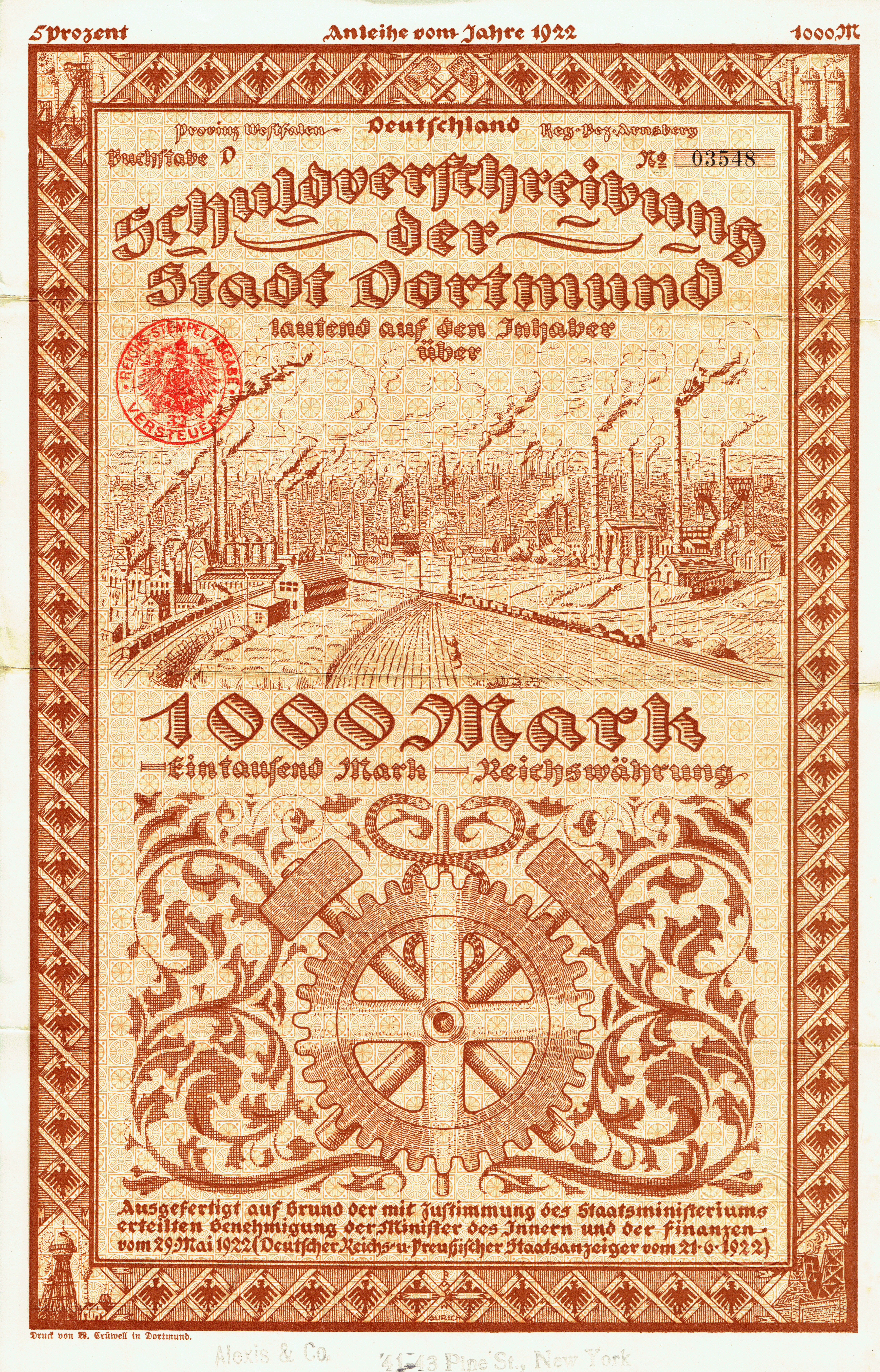 Bond of the City of Dortmund, issued 21. June 1922